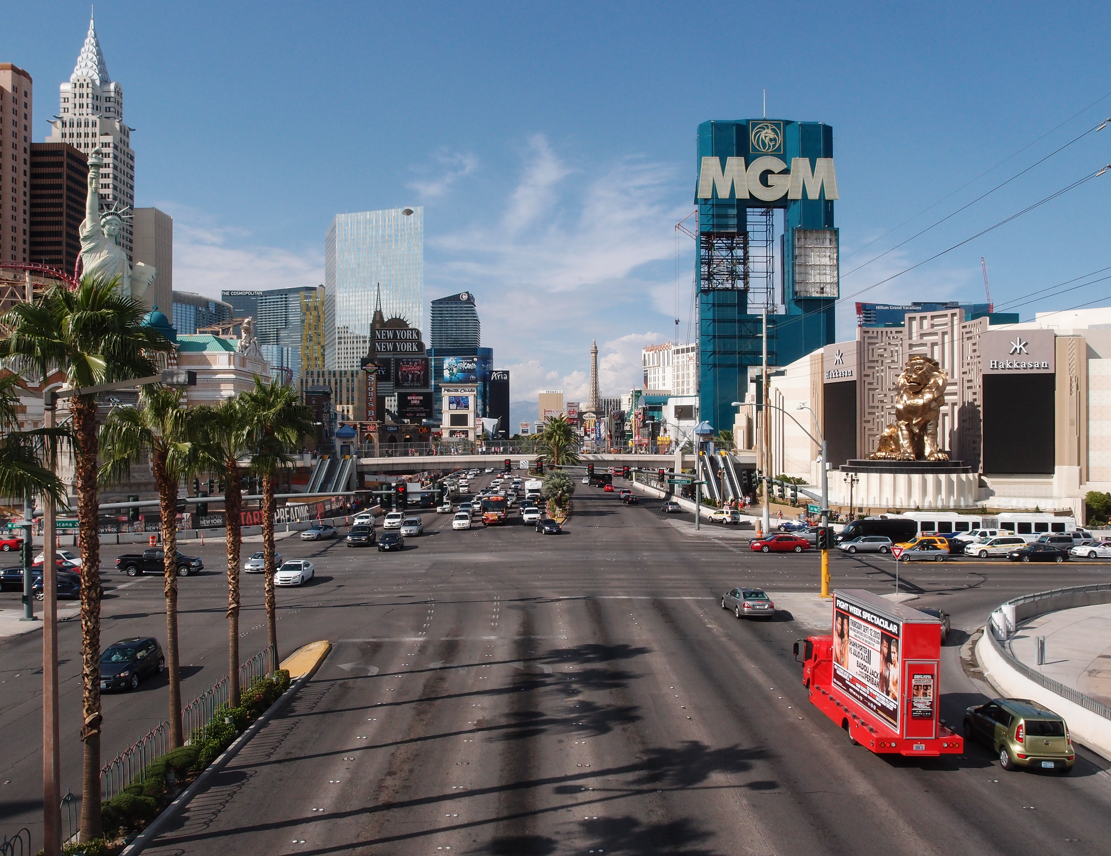 Las Vegas Strip at day